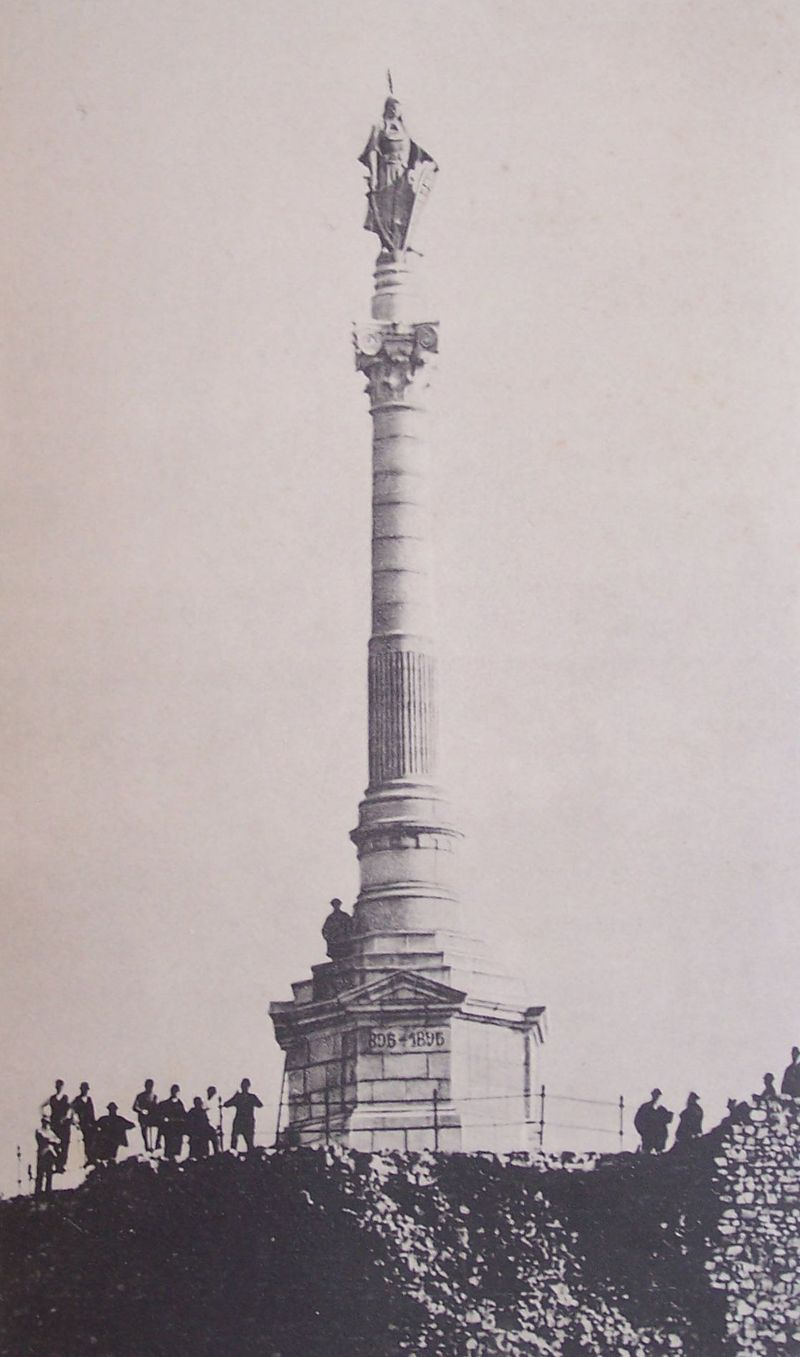 Millenium Monument in Devín (1896-1920)